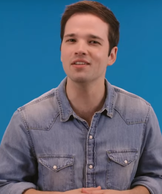 Beyoncé or SpongeBob? Kanye or TMNT? Join Kel Mitchell, Nathan Kress, Devon Werkheiser, Josh Server, Meagan Good, James Maslow, Daniella Monet, and Anthony Padilla as they guess if quotes are from their favorite cartoon characters or musical superstars!